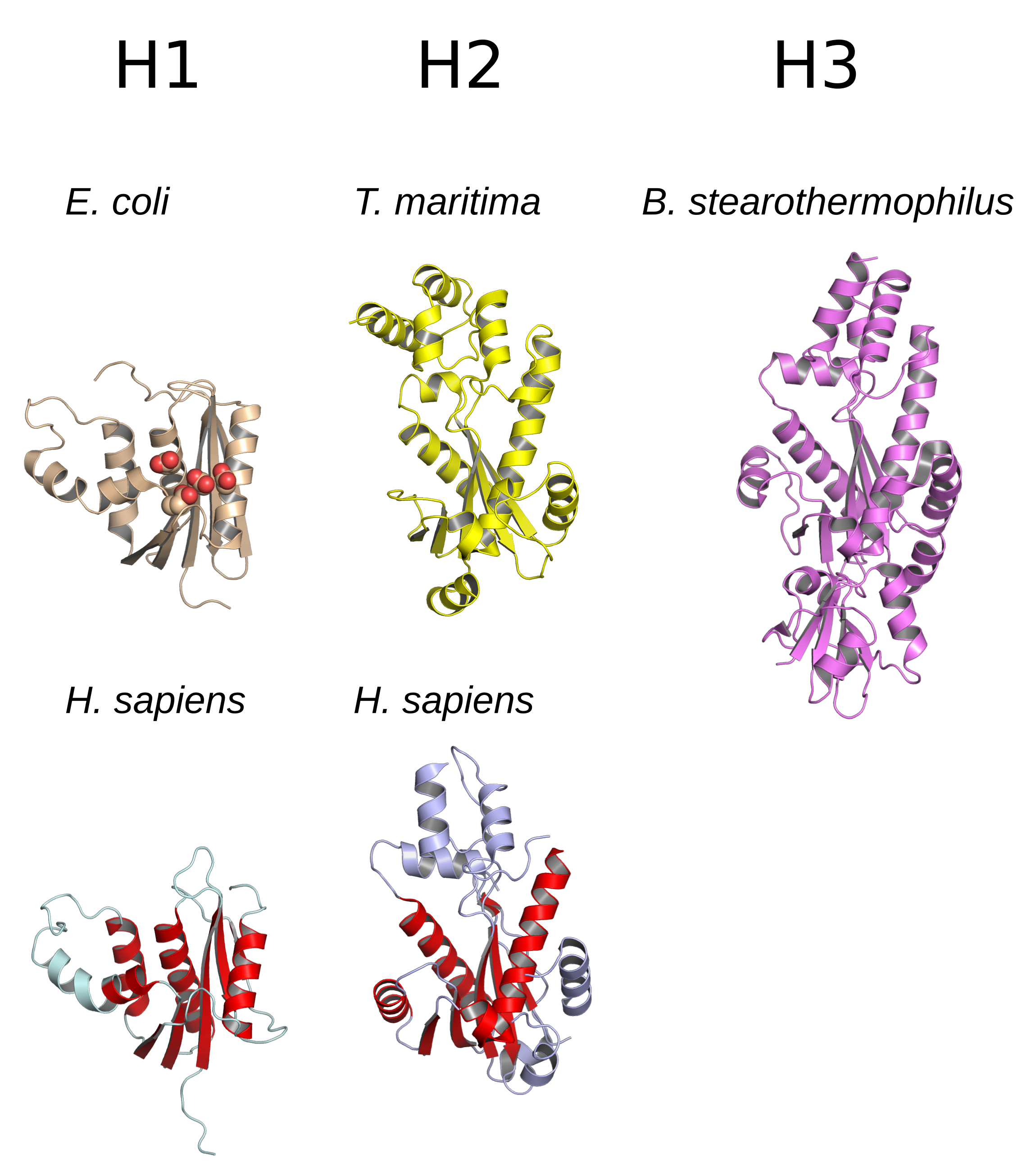 Comparison of structures of ribonuclease H proteins of types H1, H2, and H3 (HIII in prokaryotic nomenclature). In the E. coli structure, the four conserved active residues are shown as spheres. In the two human structures, the shared structural core elements between H1 and H2 are highlighted in red. Images rendered from: E. coli: PDB 2RN2 T. maritima: PDB 303F B. stearothermophilus: 2D0B H. sapiens H1: 2QK9 H. sapiens H2: 3P56 chain A